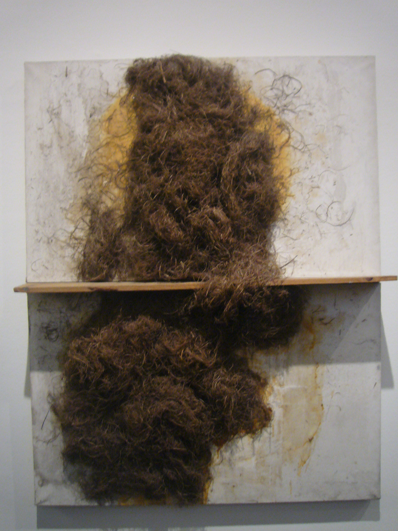 Fundació Tàpies